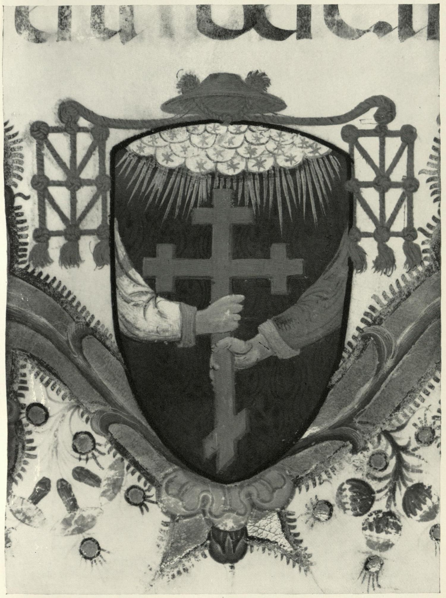 Cardinal Bessarion’s coat of arms in the manuscript Cesena, Biblioteca Malatestiana, Ms. Bessarione cor. 2, fol. 1r. The two arms holding the cross symbolize the Western and the Eastern Church.